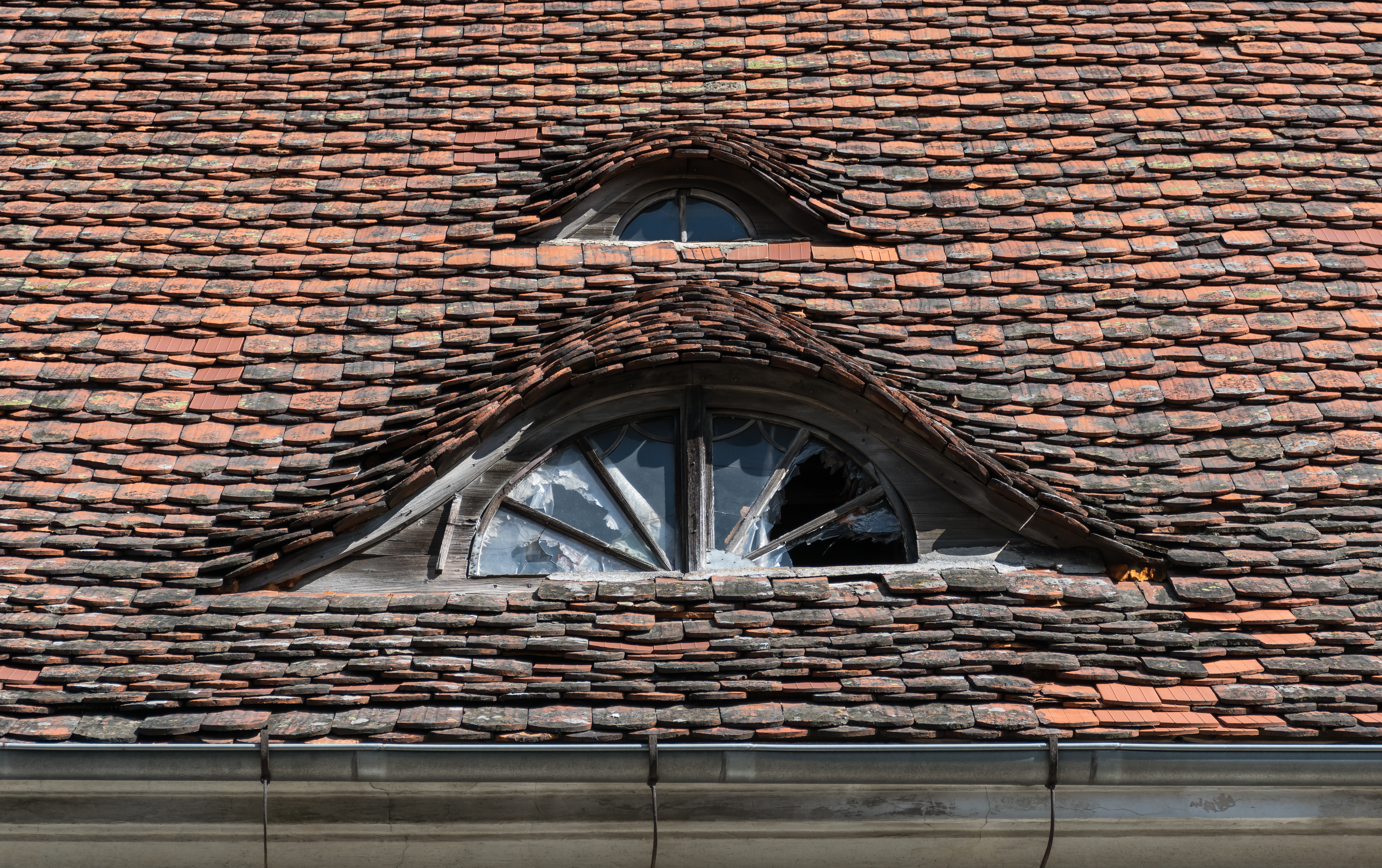 Hoecker Building in Długopole Górne Wikidata has entry Q30048744 with data related to this item.